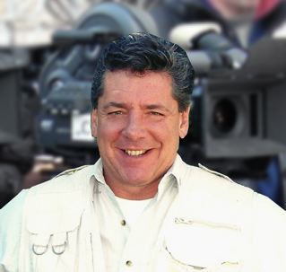 Dave Hood on Location Big Island Hawaii